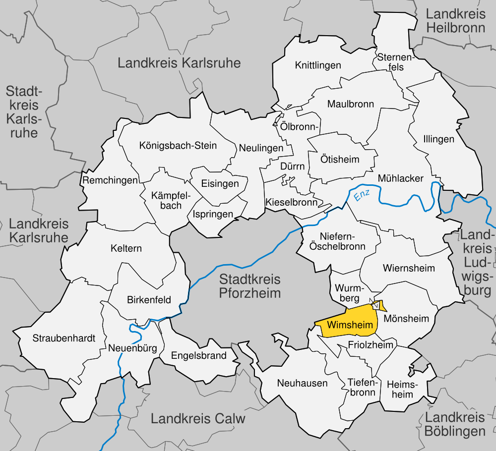 position of Wimsheim within distict of Enzkreis, Baden-Württemberg, Germany